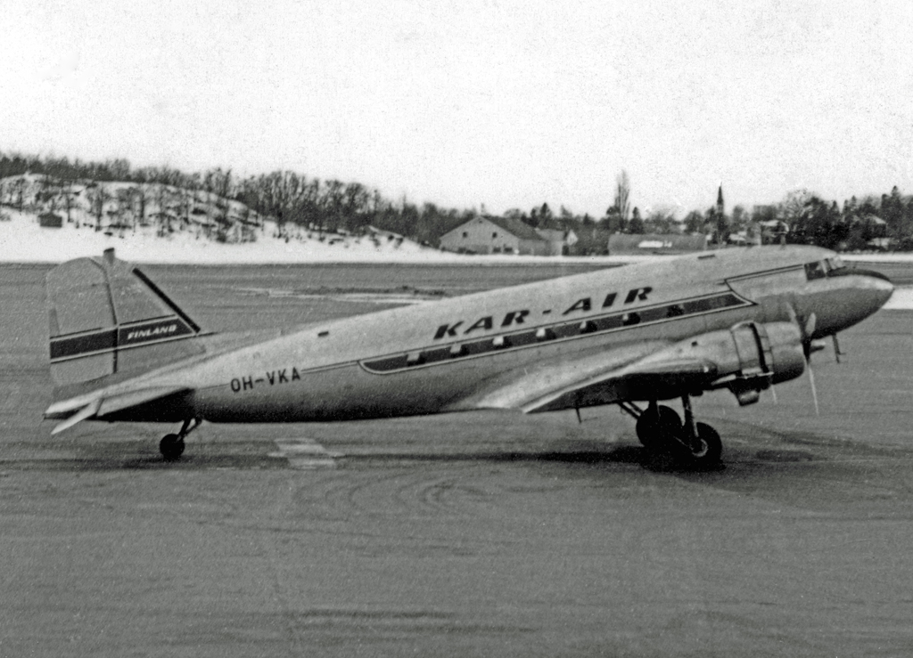 Douglas C-53B (DC-3) OH-VKA of Kar-Air at Stockholm's Bromma aitport in 1968